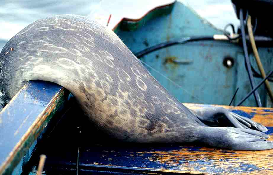 Ringed seal hunted near Qikiqtarjuaq (Nunavut, Canada)